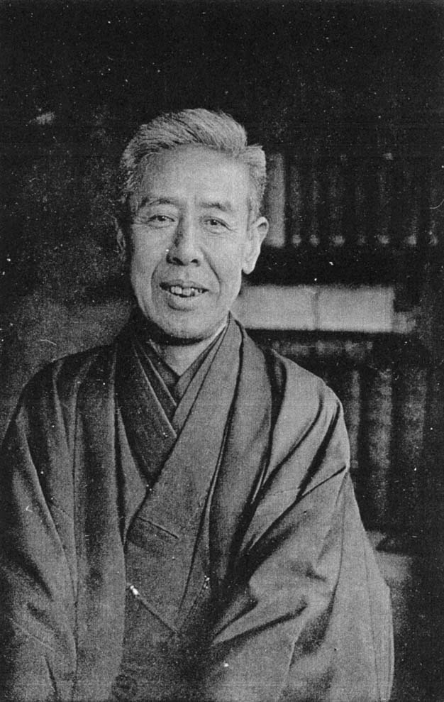 Portrait of Kesson Kutsumi (taken in May 1923).